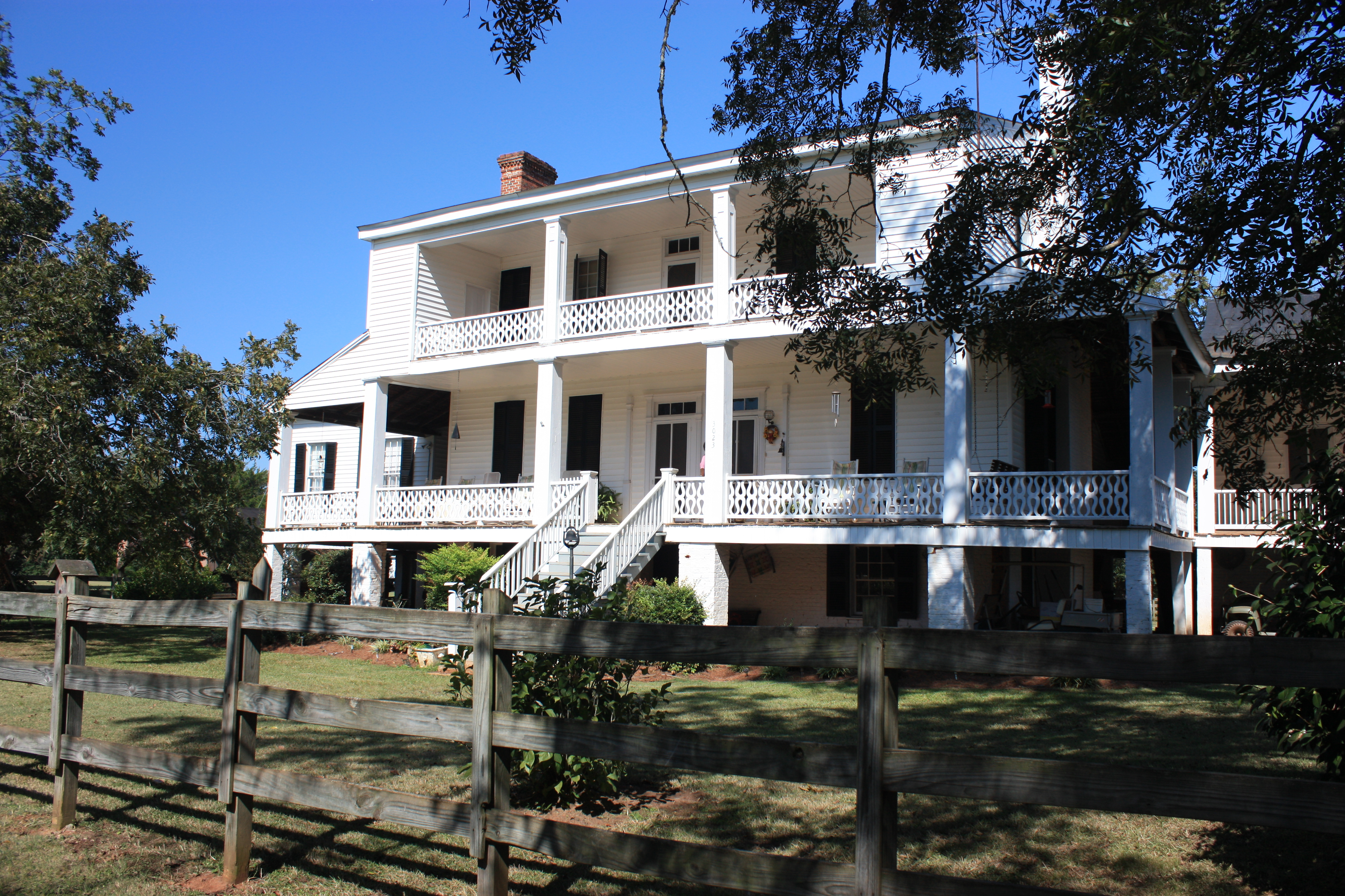 Woodville